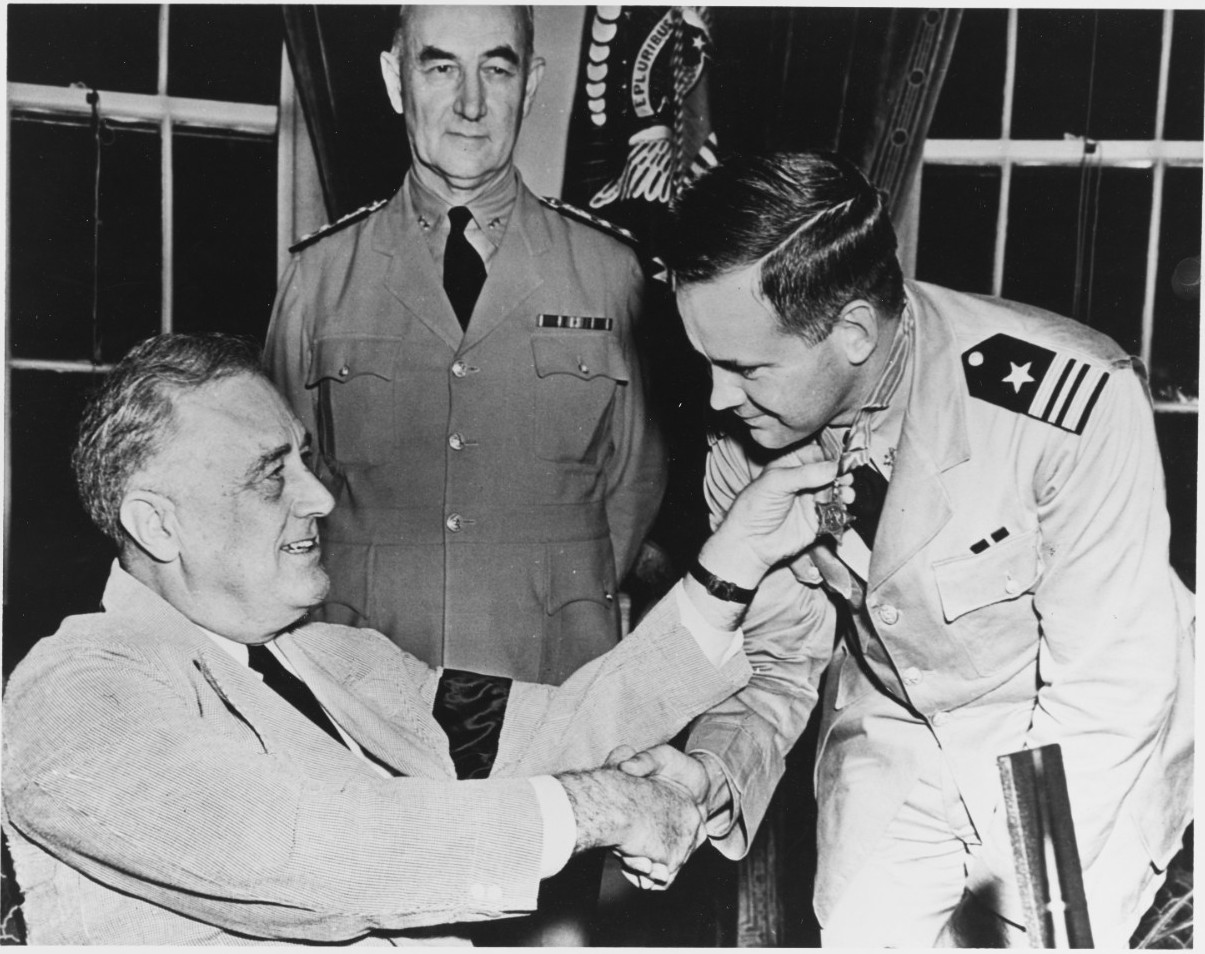 Lieutenant Commander John D. Bulkeley, USN, receiving the Medal of Honor from President Franklin D. Roosevelt.